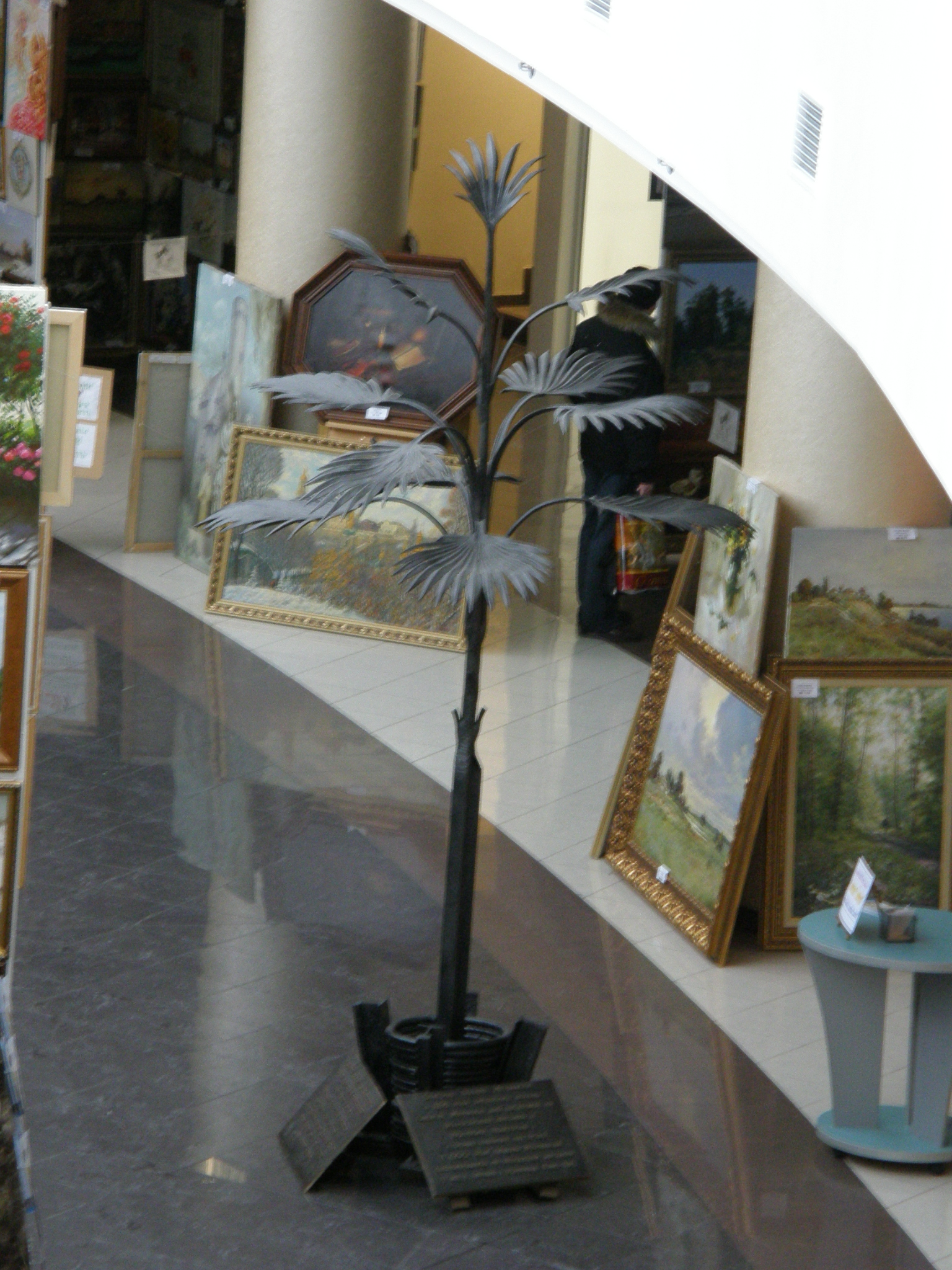 Palma Mercalova in Kiev